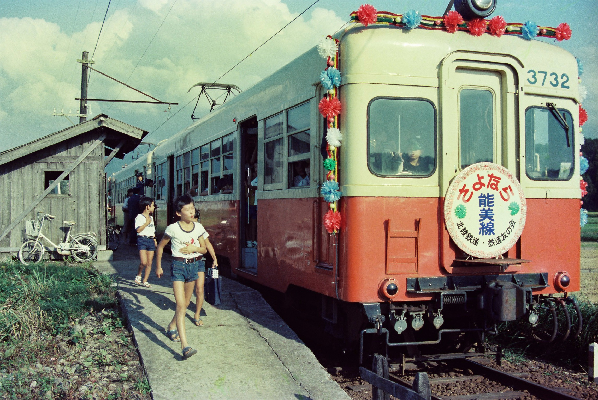 北陸鉄道能美線